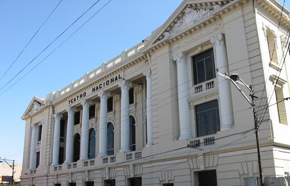 National Theatre of EL Salvador.